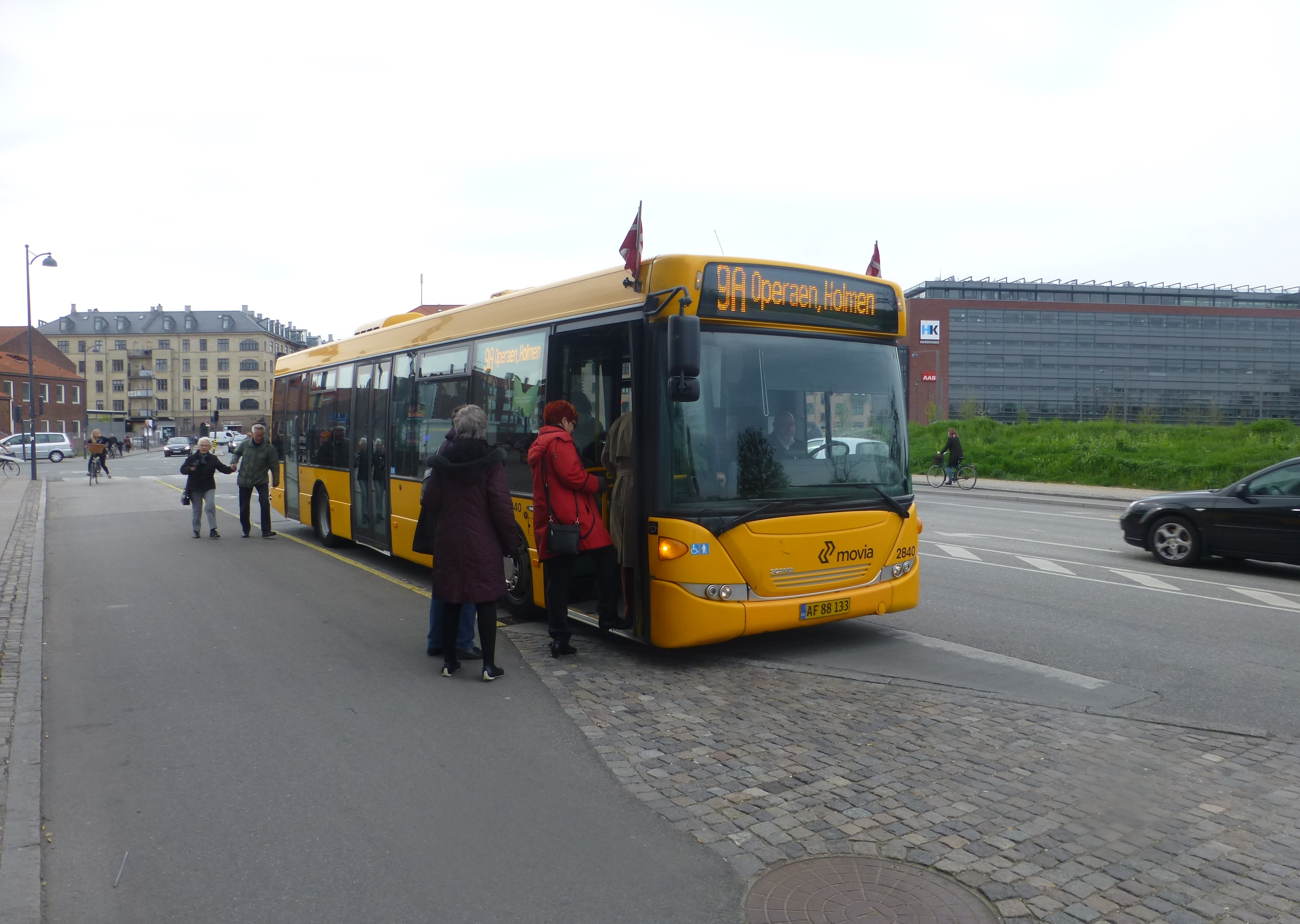 Extra bus to the Copenhagen Opera House on line 9A on Njalsgade at Islands Brygge Station in Copenhagen. The regular buses on line 9A was going to Refshaleøen instead of the Opera during the Eurovision Song Contest 2014 so the passengers for the Opera had to be transported in extra buses during that. Usually line 9A never comes at Islands Brygge.